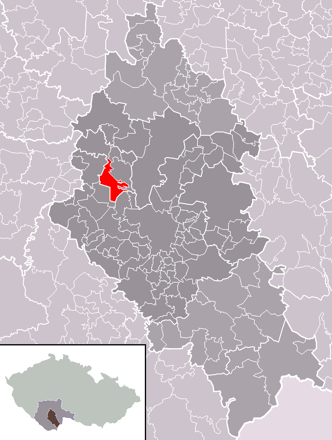 Location of Pištín municipality within České Budějovice District and administrative area of České Budějovice as a Municipality with Extended Competence.